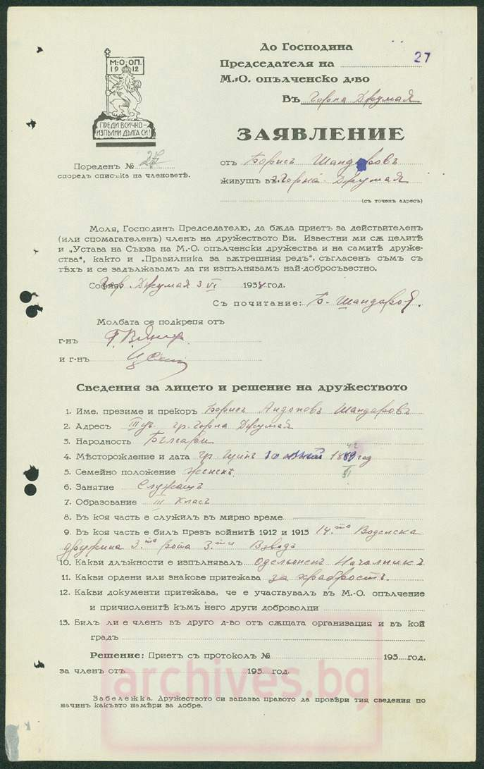 Boris_Shandarov's Document